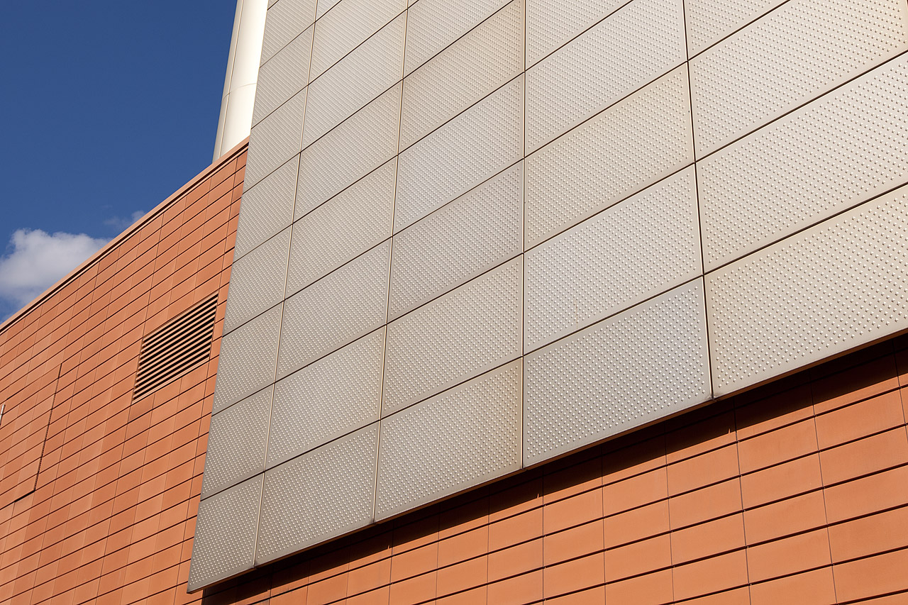 The façade of the Spielbank Berlin, featuring the anodized aluminum panels that resemble the surface of the Staatsbibliothek building on the opposite.